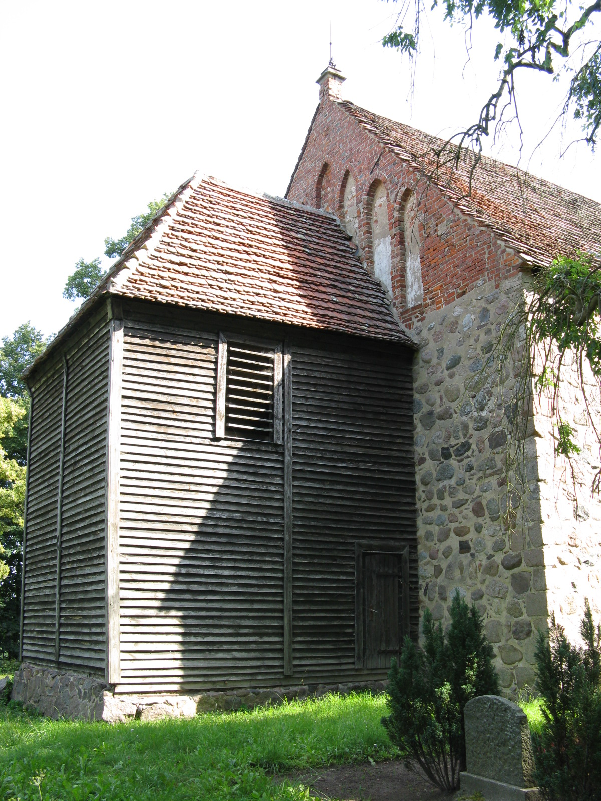 Church in Groß Upahl, disctrict Güstrow, Mecklenburg-Vorpommern, Germany